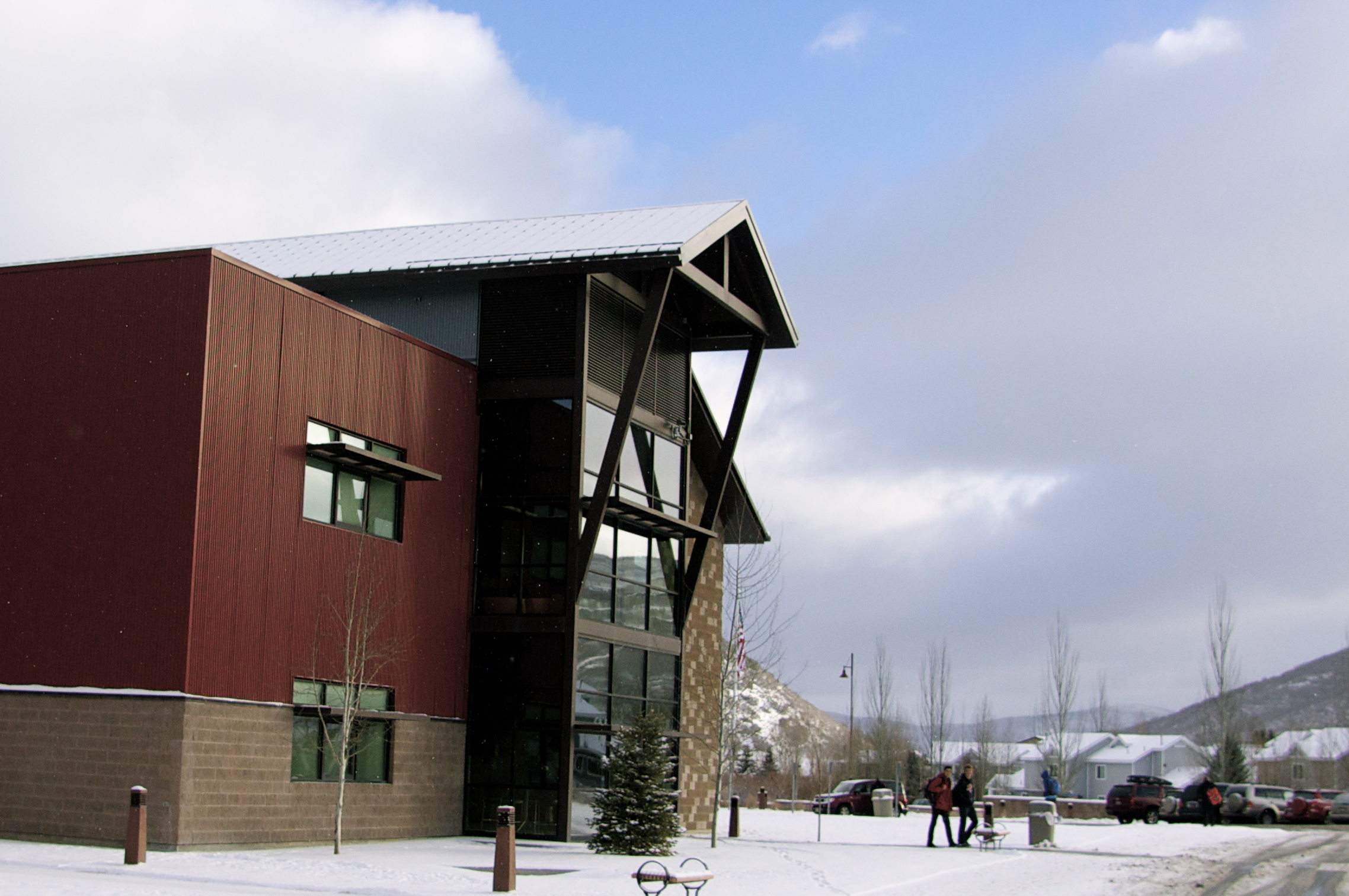 The southeast entrance to Park City High School photographed after a winter snow storm in December 2012. (Located in Park City, Utah, USA)